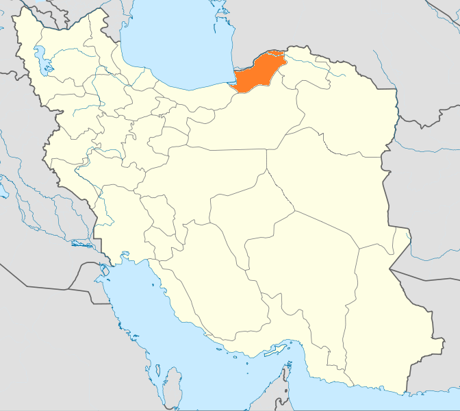 Locator map of Golestan province — northeastern Iran.